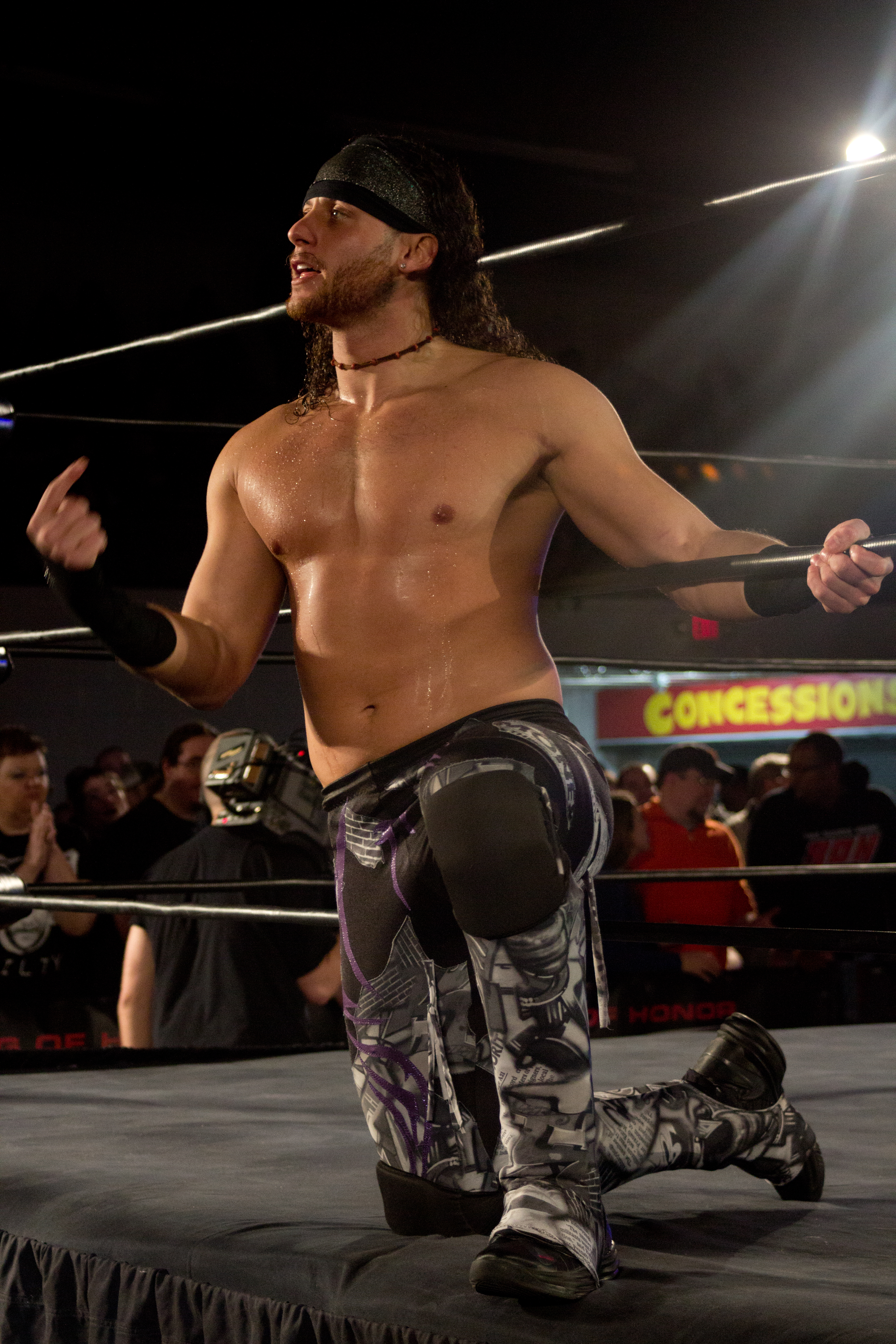 Taven at an ROH taping in January 2014